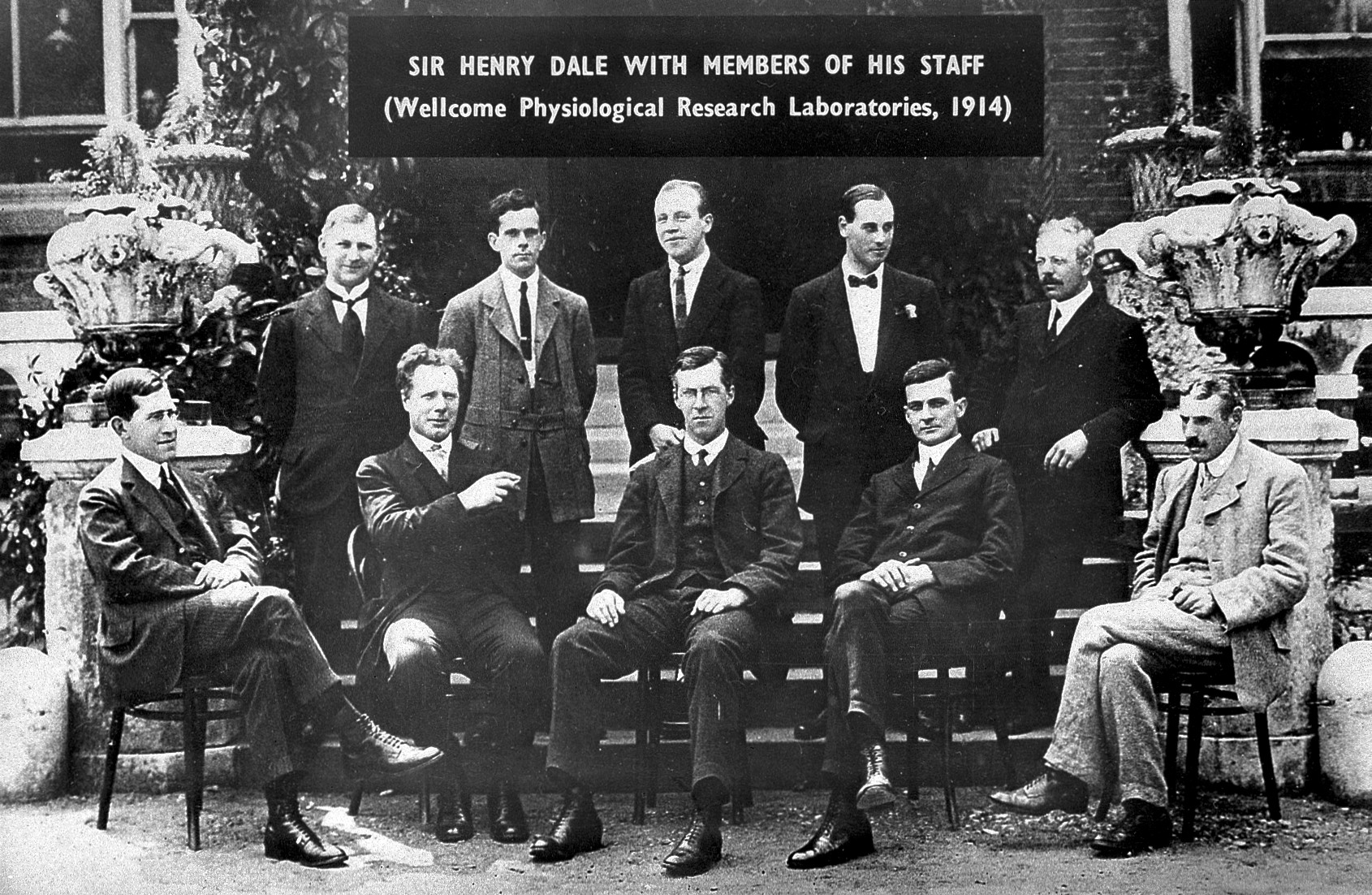 Portrait of Sir Henry Dale, with members of the staff, Wellcome Physiological Research Laboratories. Front row (left to right): G.H.J MacAllister, G. Barger, Henry Dale, R.A. O'Brien, H.J. Sudmerson. Back row: G.S. Walpole, A.T. Glenny, J.H. Burn, J.B. Buxton, A.J. Ewins. Iconographic Collections Keywords: Henry Hallett Dale